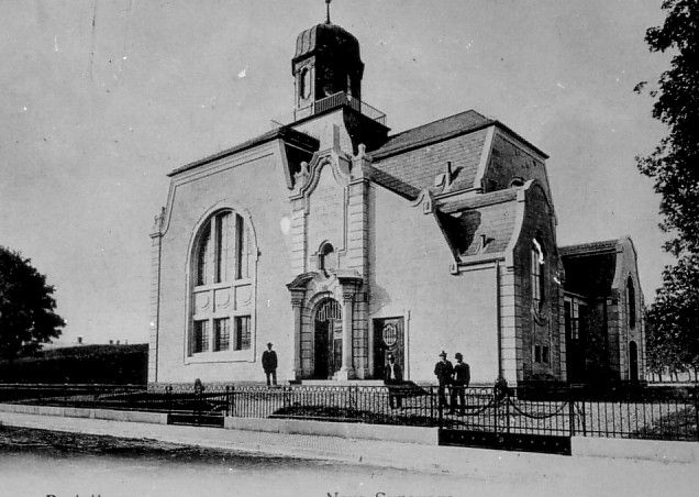 Synagogue of Rastatt, built in 1906 and destroyed by the nazis in 1938 during the Cristal Night.